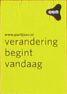 Election poster Partij één used in the 2010 general elections